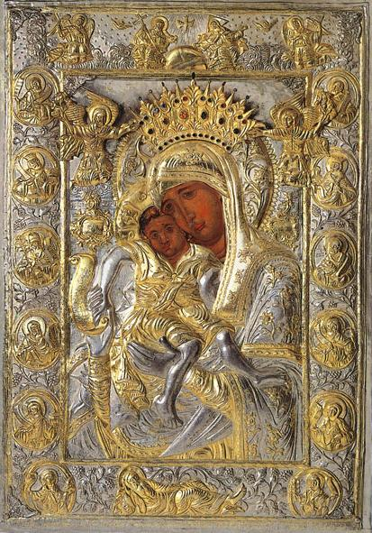 Axion Estin icon used at the Mount Athos. It "usually sits behind the altar of the Protaton church of Karyès, as hegumene of all the Holy Mountain" (Monastic Republic of Mount Athos)